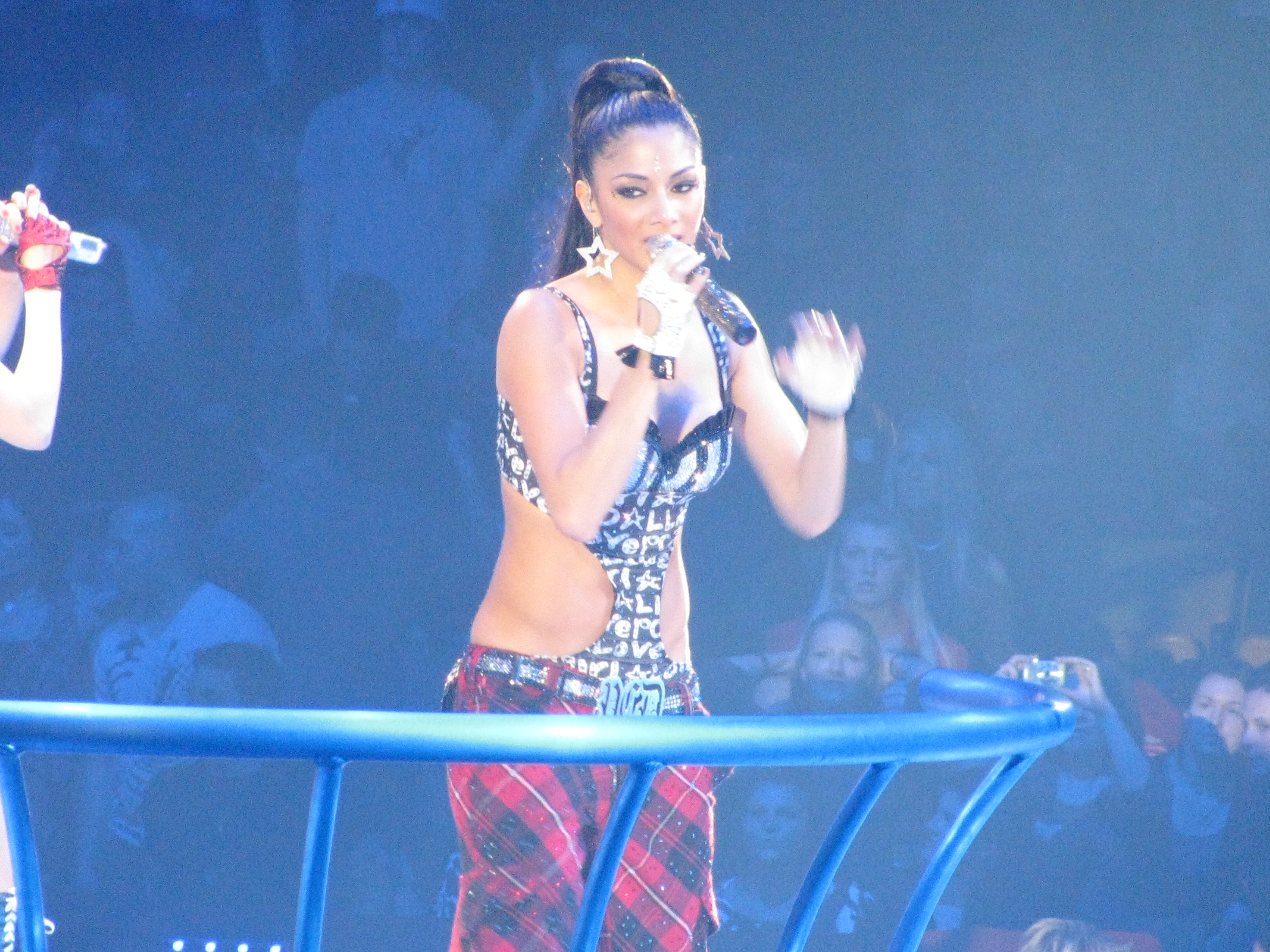 Nicole Scherzinger durante a abertura da turnê das Pussycat Dolls com a Britney Spears, em 16 de Março de 2009, em Boston.